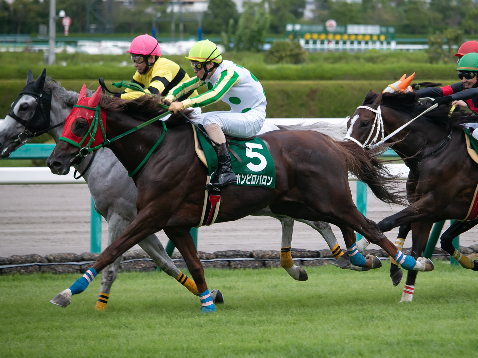 Nihonpiro Baron(JPN), Racehorse of Japan.